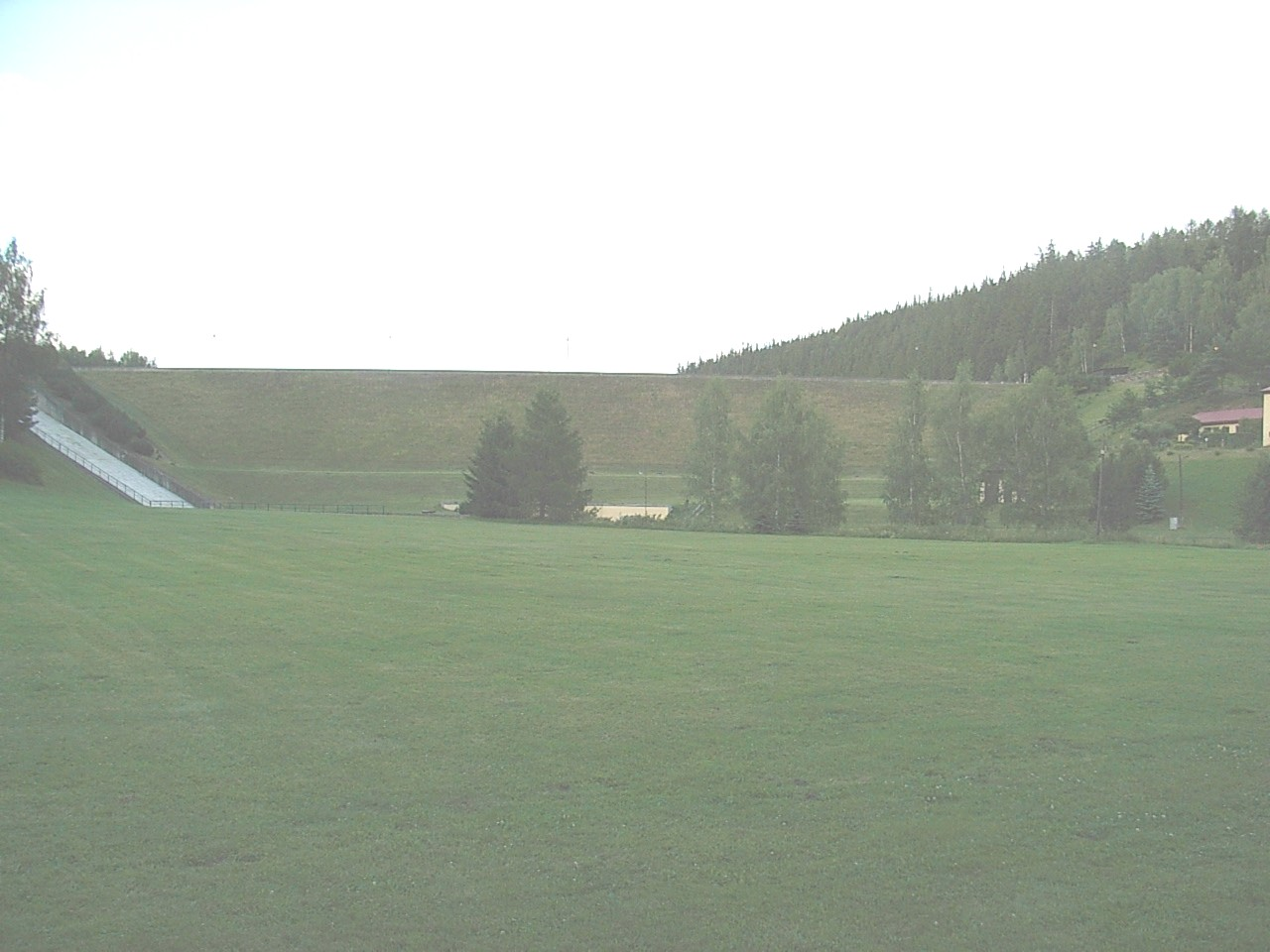 Vodní nádrž Žlutice, hráz